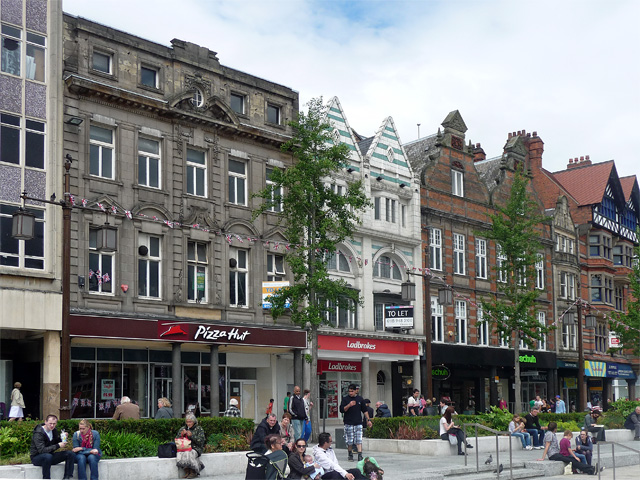 27-35 Long Row, Nottingham